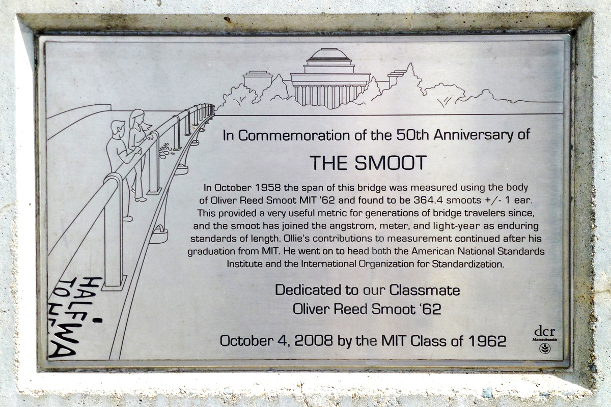 Plaque on the Harvard Bridge in Boston, Massachusetts, describing the unit of length "The Smoot"